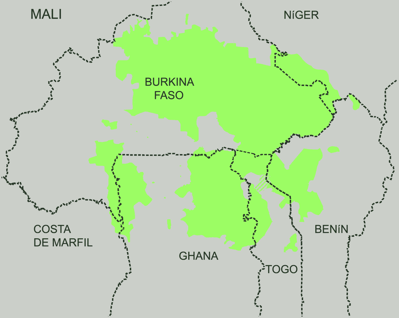 Oti-Volta languages